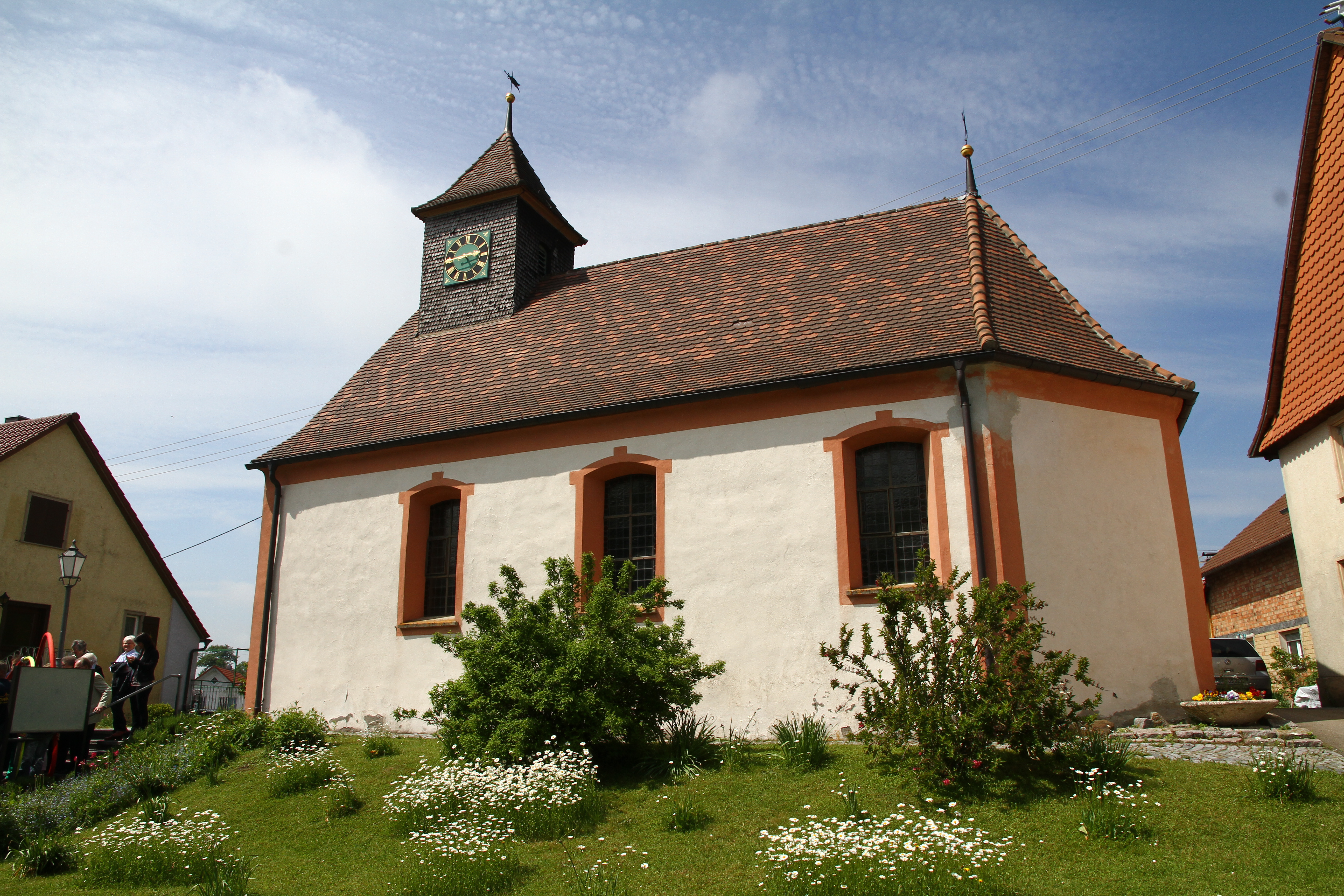 St. Georg Chapel in Hohenbodman